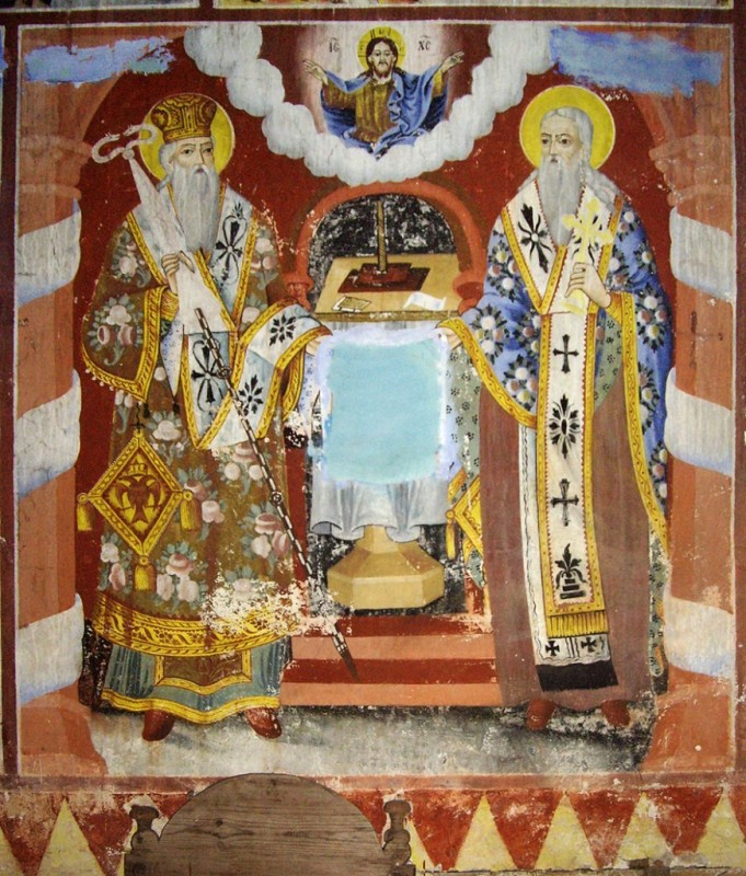 Fresco of St Cyril and Methodius in St Dimiter Church in Panorama (Kalapot), Drama, Greece with erazed inscriptions in Bulgarian